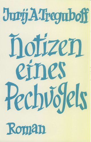 Picture of the book "Notitzen eines Pechvogels" by Jurij A. Treguboff